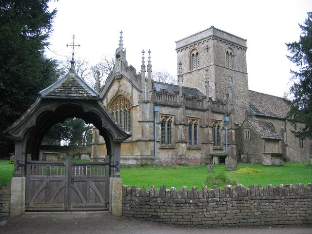 St. Giles, Stanton St. Quintin. A view looking south to the lych gate of St. Giles Church.